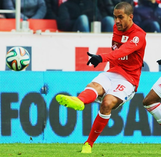 Rômulo Borges Monteiro